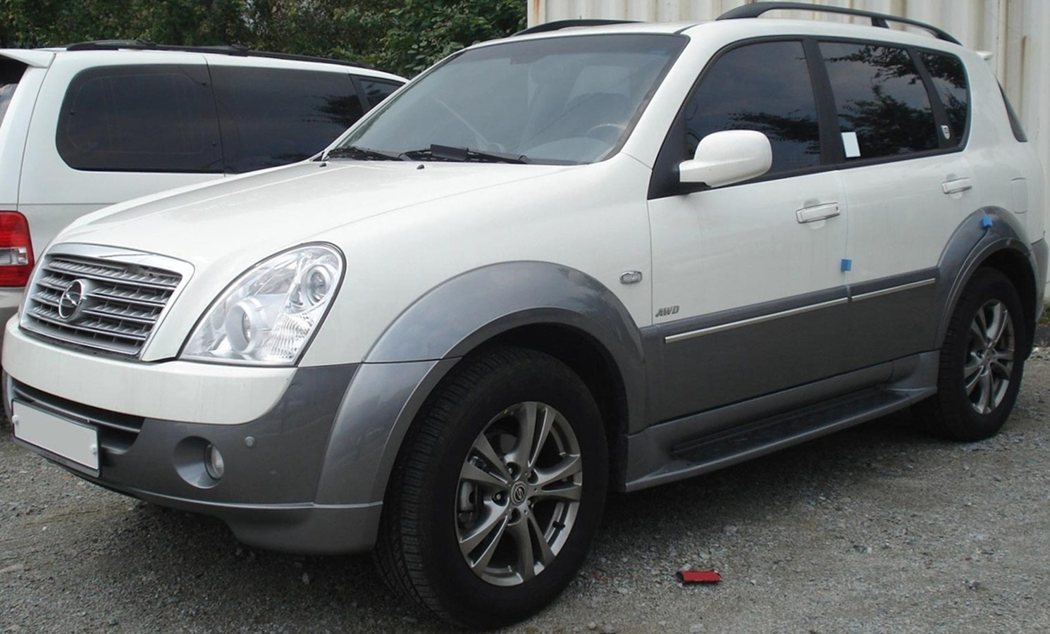 SsangYong Super Rexton